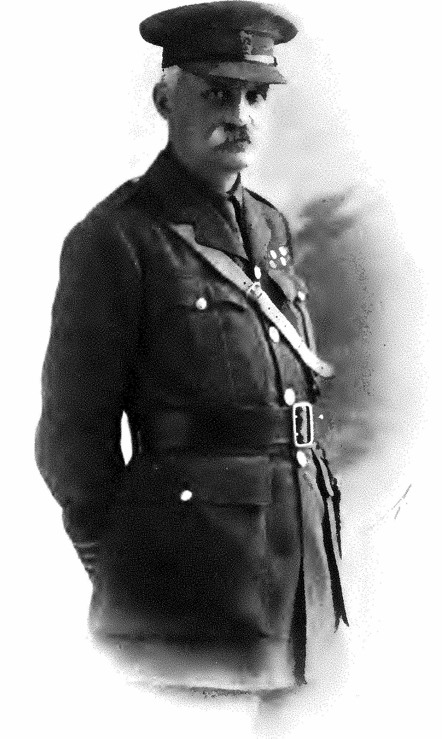 Fleming Mant Sandwith (1833-1918)